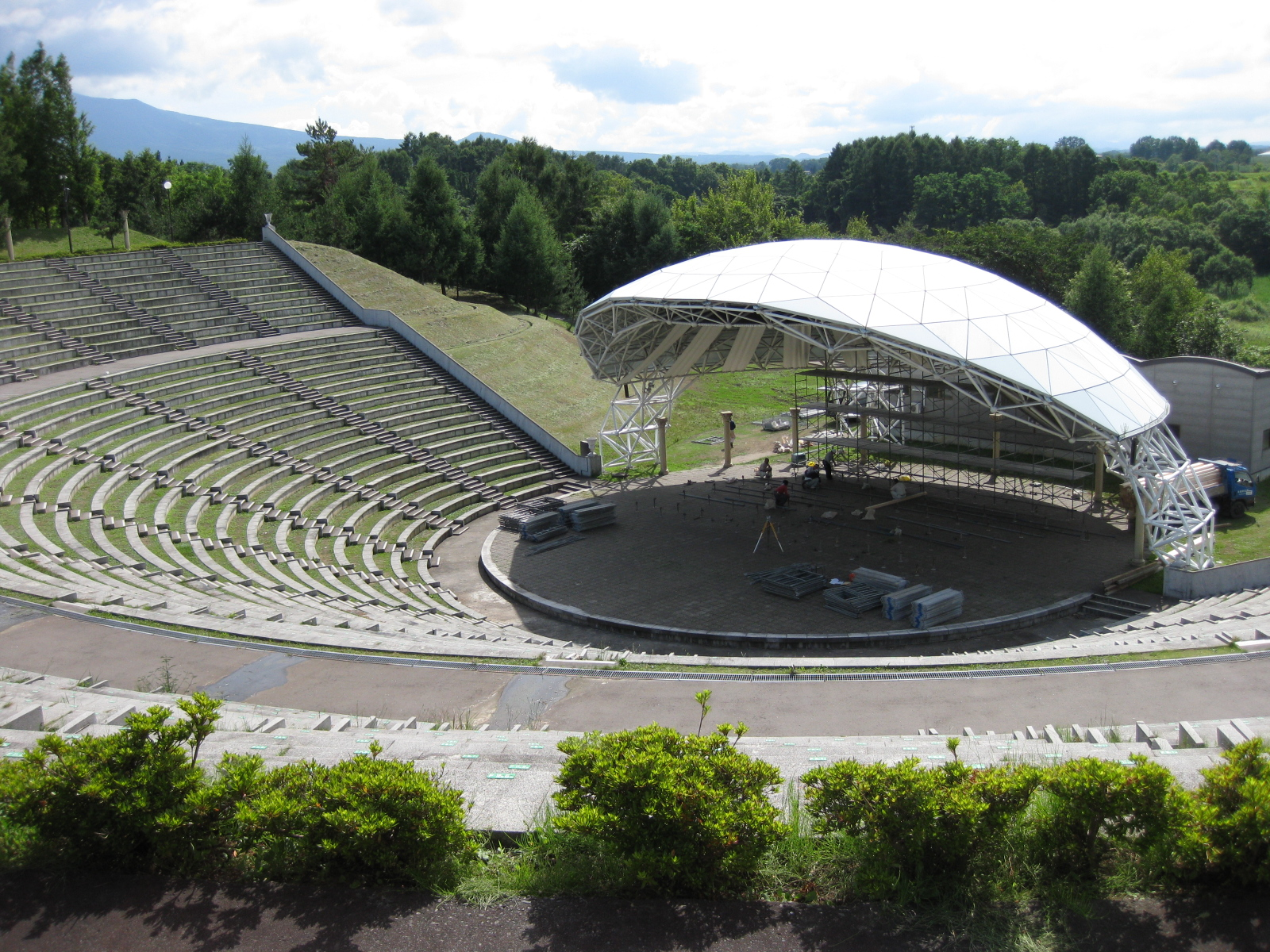 Tsugaru-Earth-Village-Round-Theater, in-Morita,Tsugaru-City,Aomori,Japan